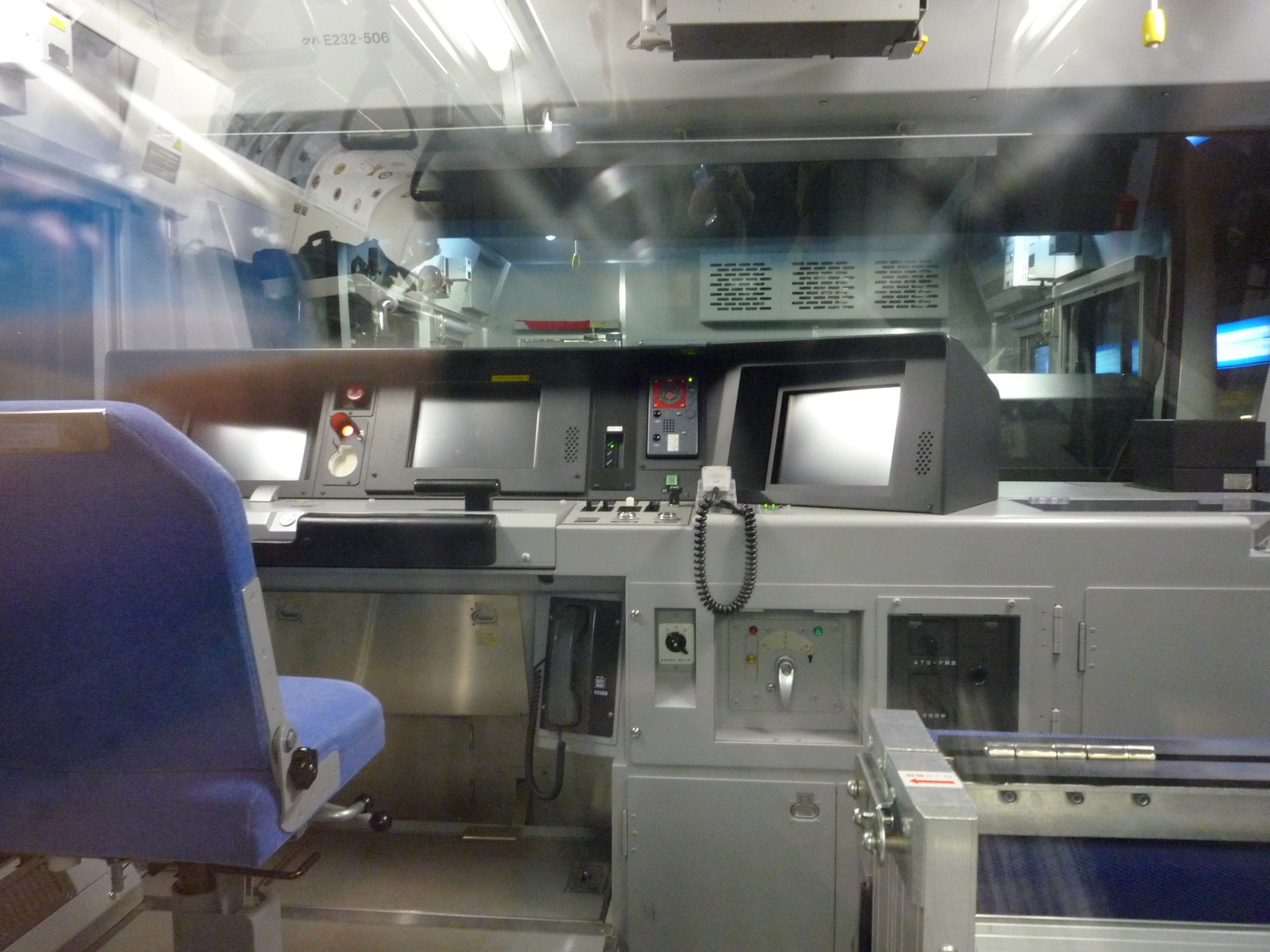 Driver's cabs of JR East E233 series EMU. Serial number: KuHa E232-506 中文（台灣）: JR東日本E233系電聯車的駕駛室. 車號: KuHa E232-506